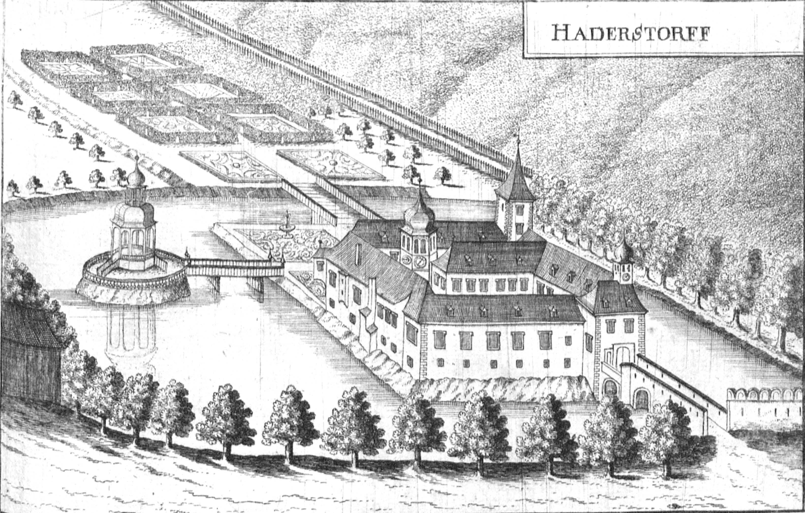 Engraving of Castle Haderstorff (Lower Austria, today Penzing, Vienna) from Topographia Austriae inferioris by Georg Matthäus Vischer (1672)